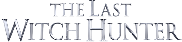 Logo for the film The Last Witch Hunter (2015).